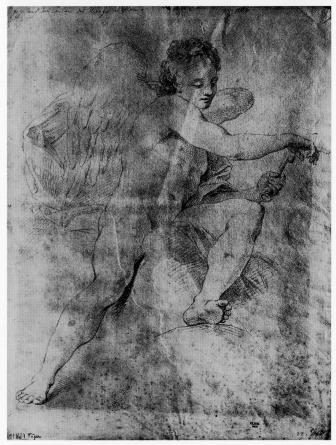 Anteros with Key, drawing by Heinrich Friedrich Füger, after Anton Raphael Mengs.